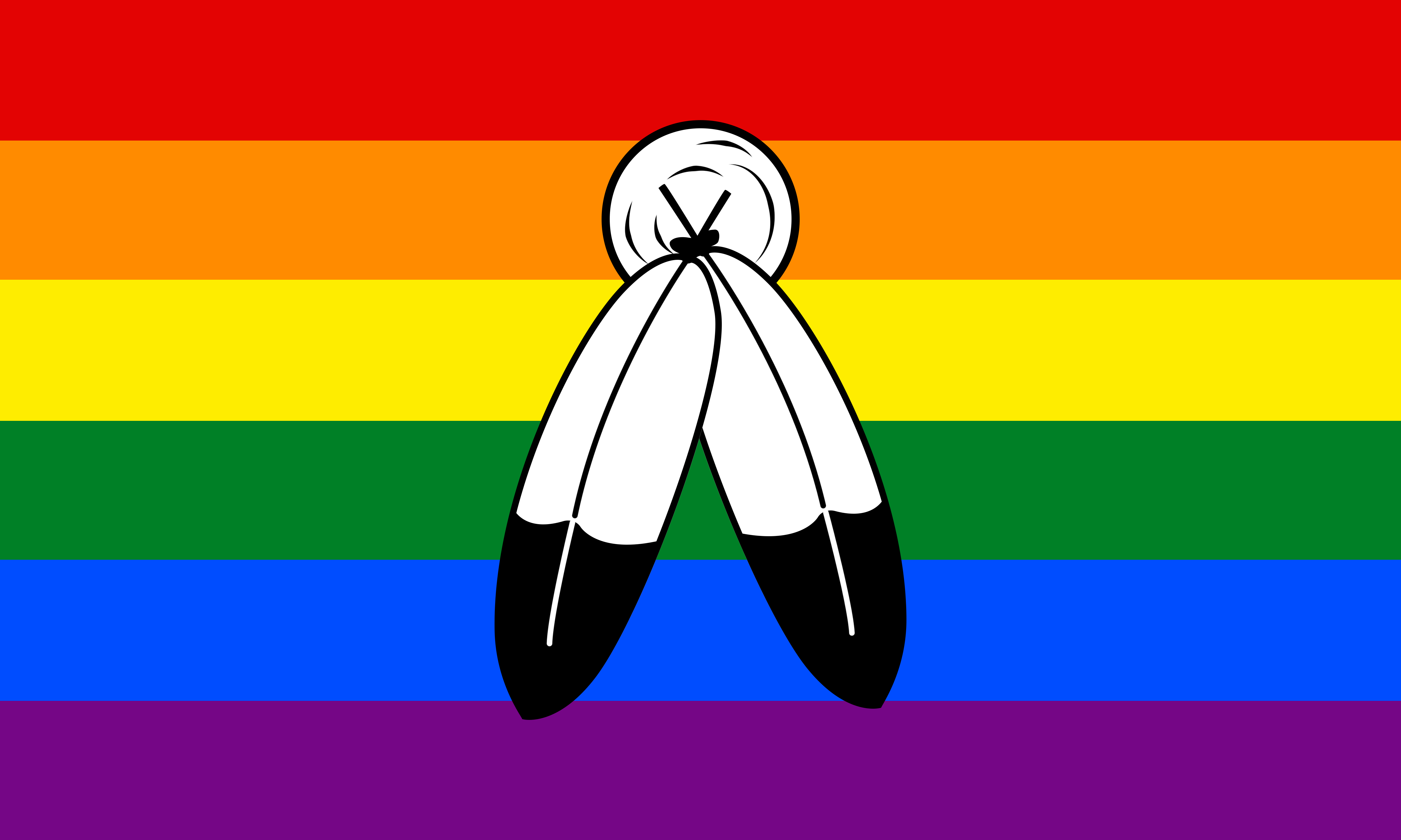 Two-Spirit Flag